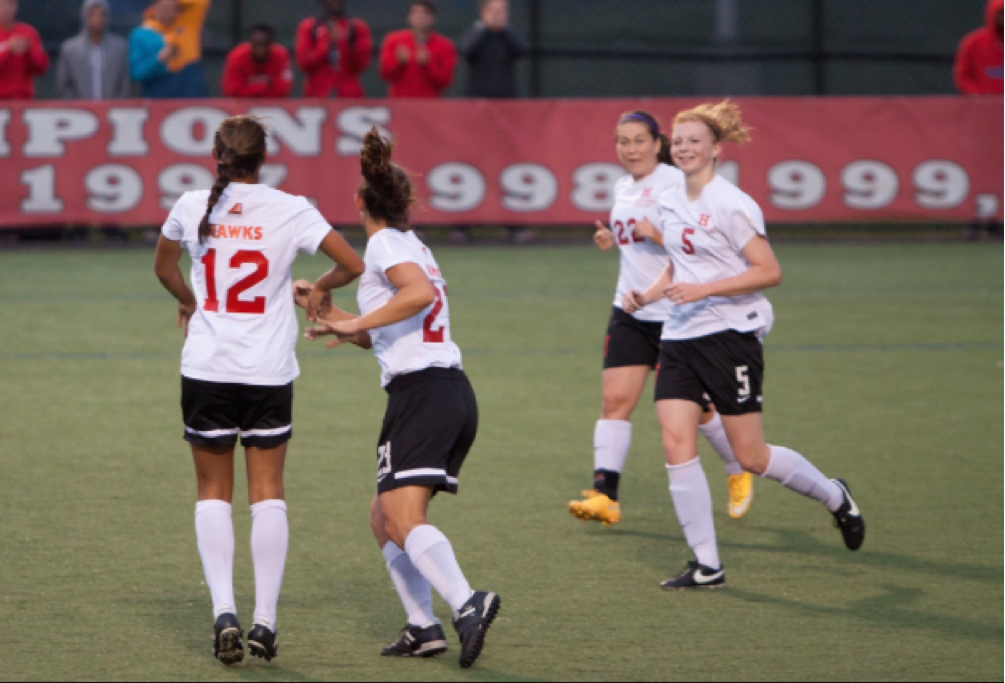 Nolan celebrating her first goal for the Hartford Hawks. Helping the Hawks to a 1-0 win over Stony Brook